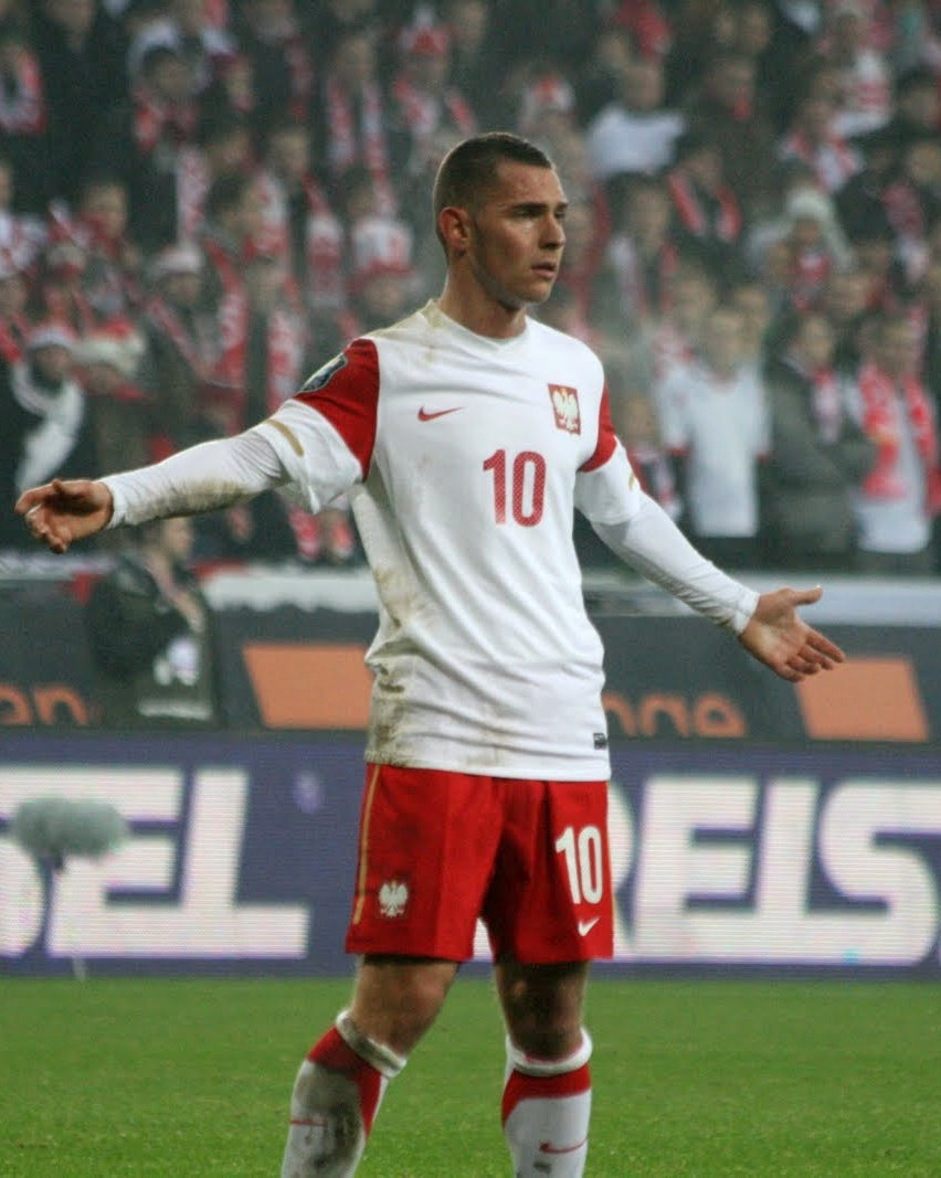 Ludovic Obraniak, polish football player.